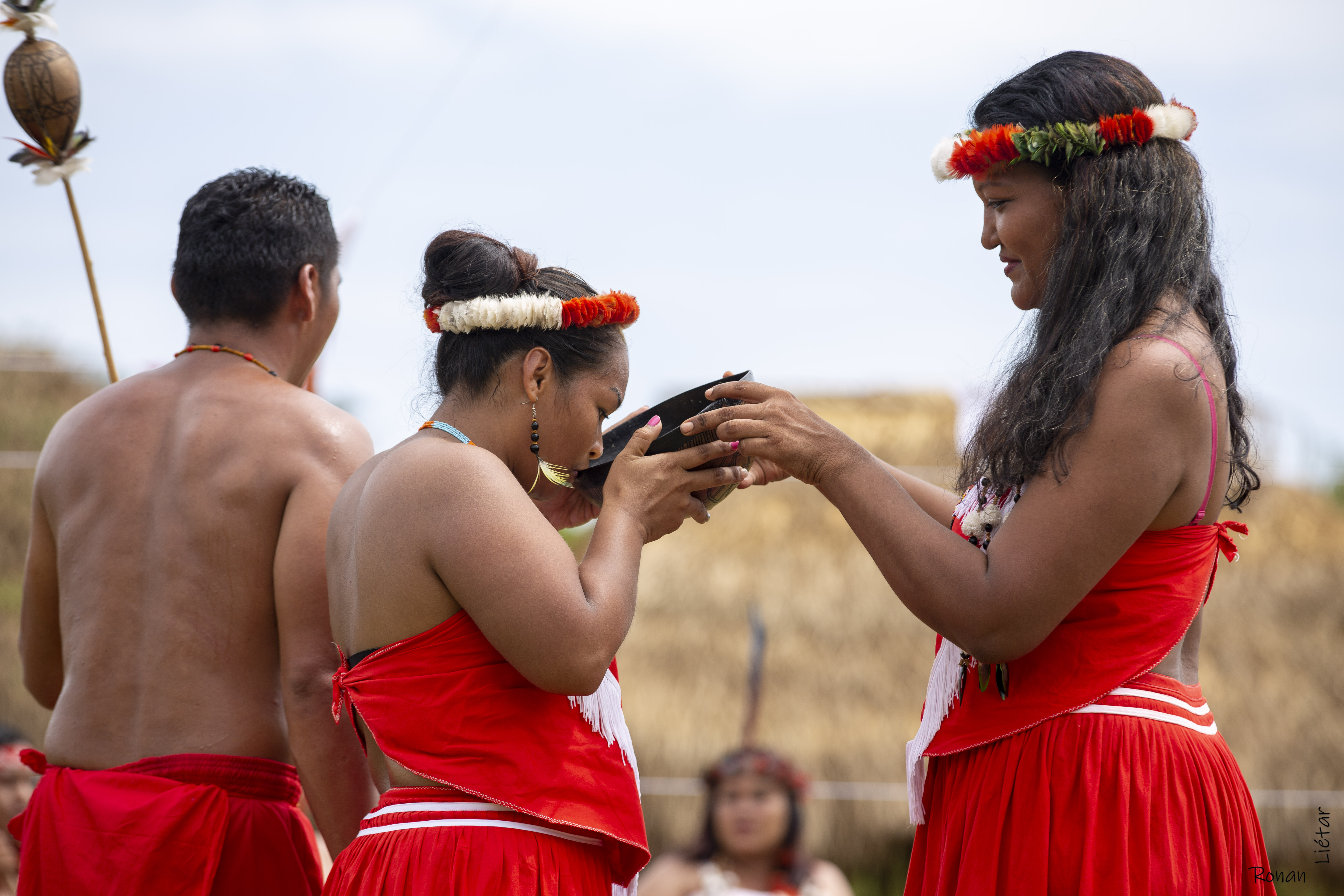 The dancer drink the traditional cassava beer